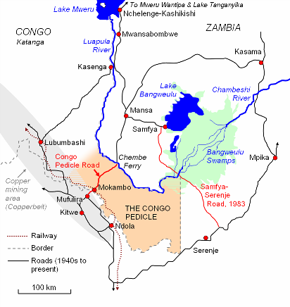 Map of Congo Pedicle Road, Congo-Zambia showing Copperbelt, Luapula River with main roads and railway Created by User: Rexparry_sydney